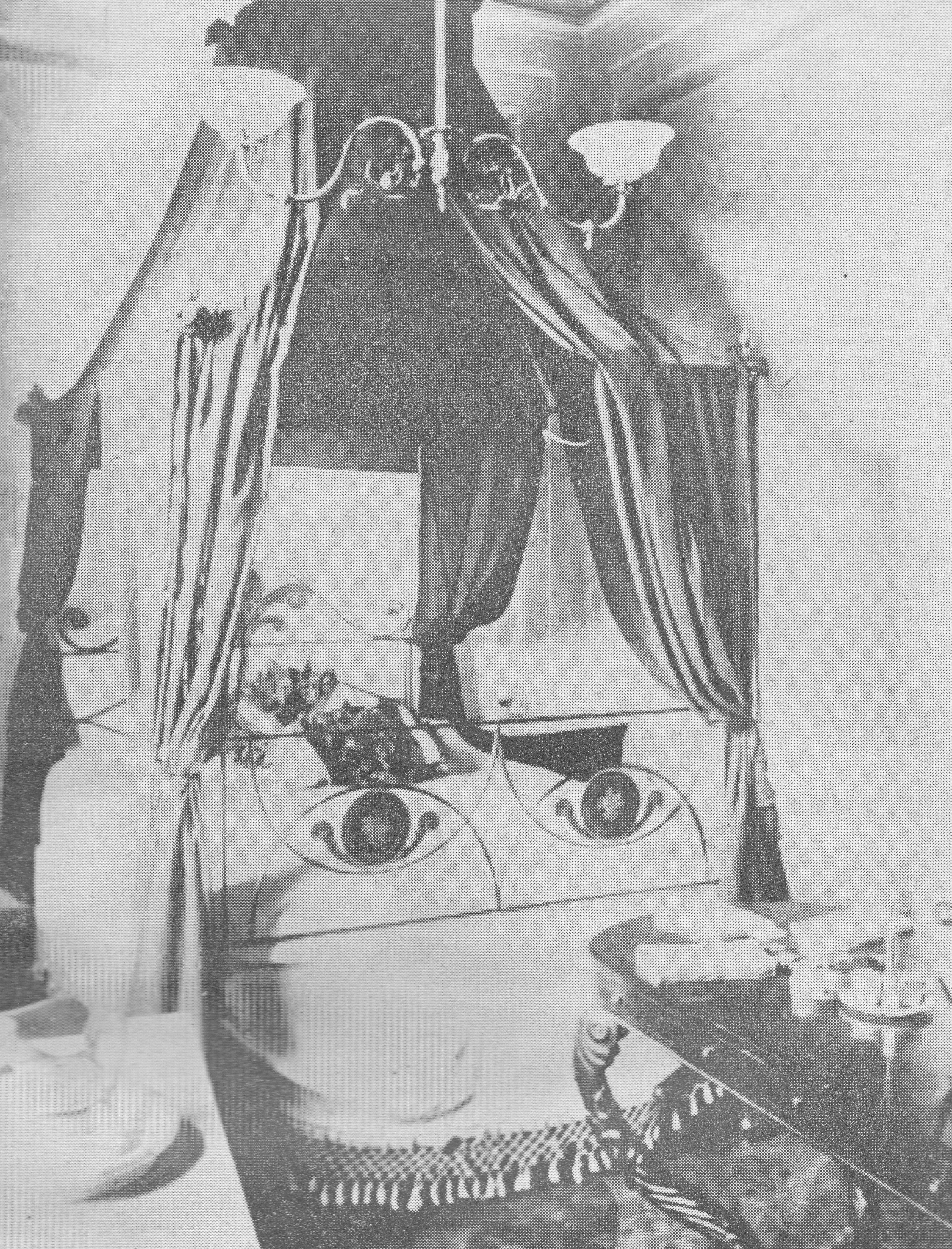 Death bed of Giuseppe Mazzini in Pisa, Tuscany, Italy.